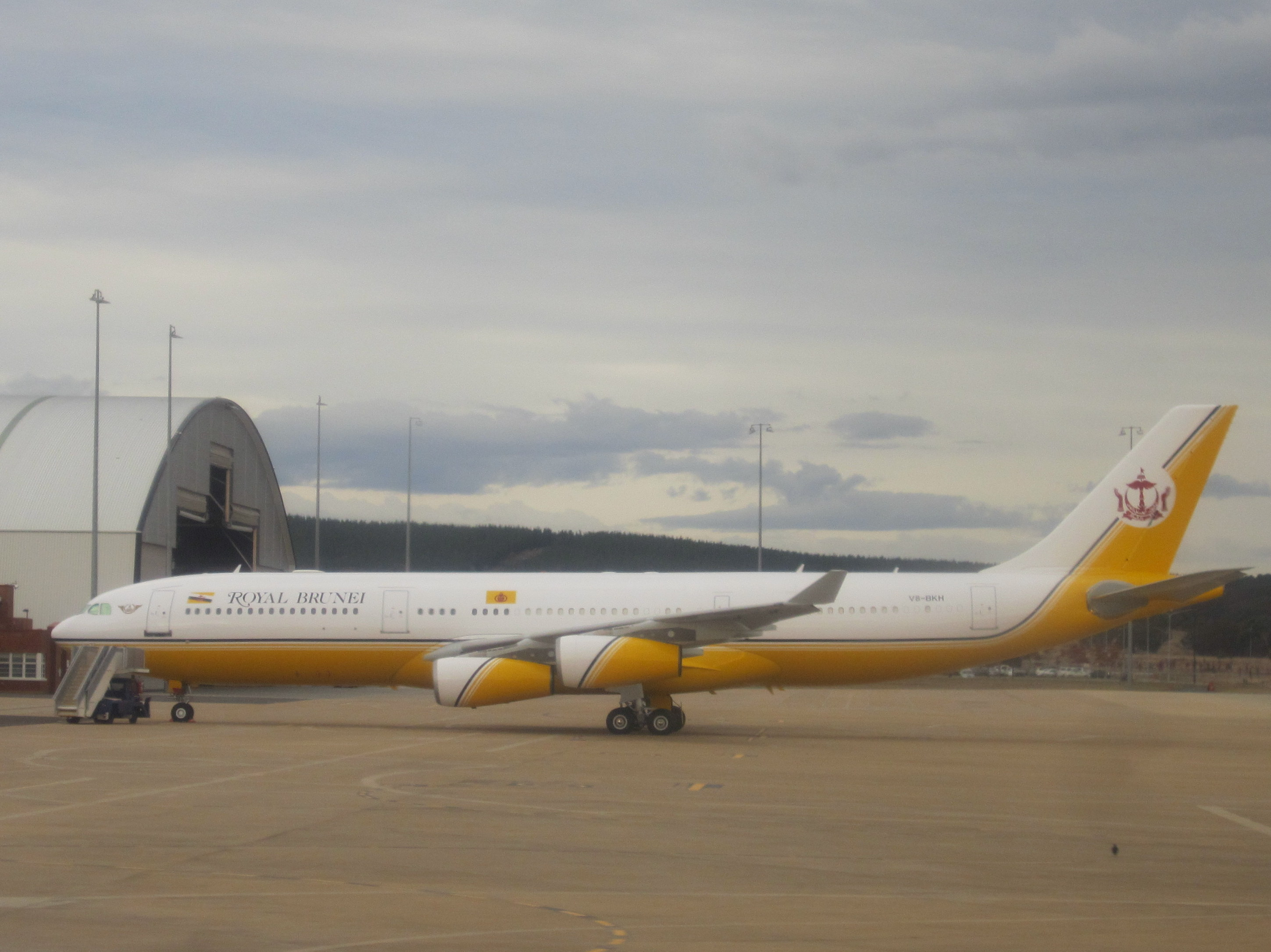 The Royal Brunei airlines-marked Airbus A340-200 V8-BKH at Canberra Airport during the Sultan of Brunei's visit to the city in May 2013. The Canberra Times reported that the Sultan had piloted the aircraft himself.